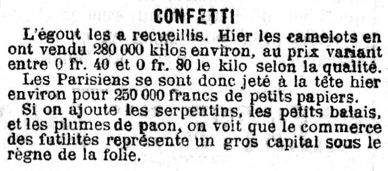 Les confettis jetés à la Mi-Carême 1898 à Paris.